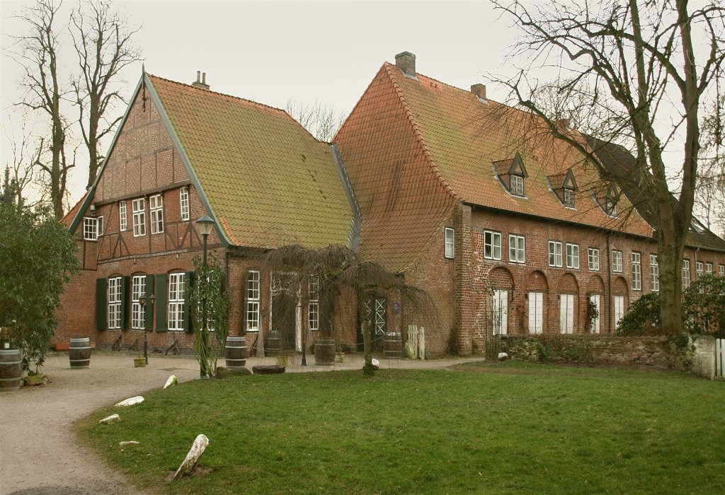 Uetersen (Germany), Monastery, southern house , Photo: 2008